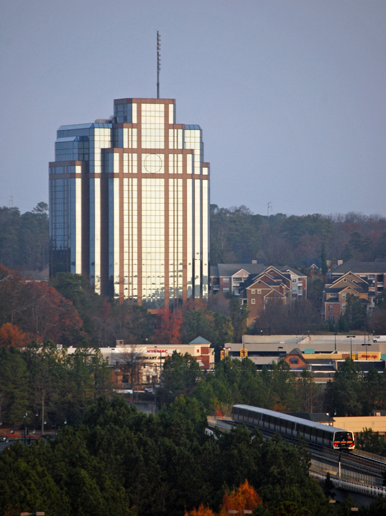 Edge city north of Atlanta